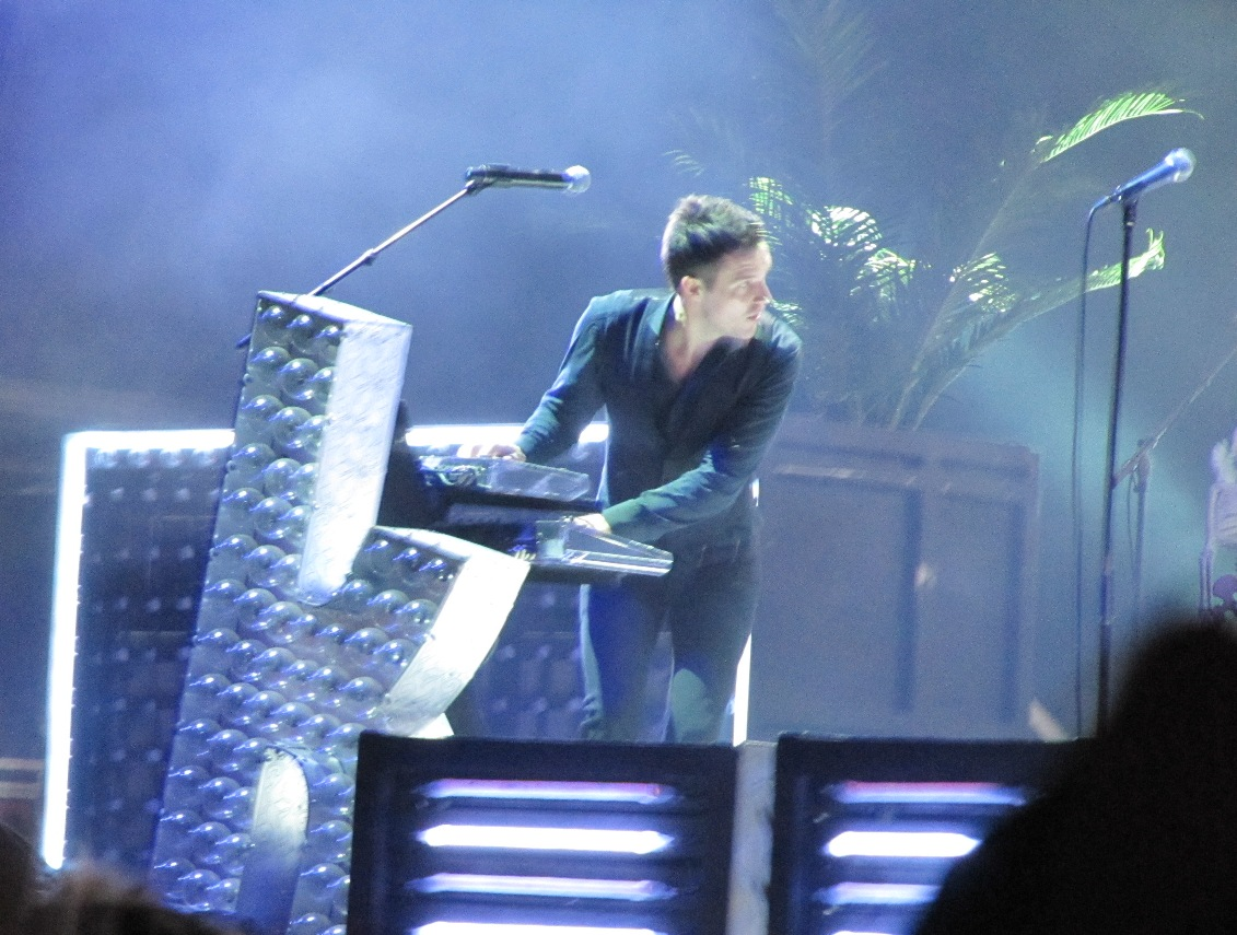 The Killers performing in Abu Dhabi, on 8 December, 2009